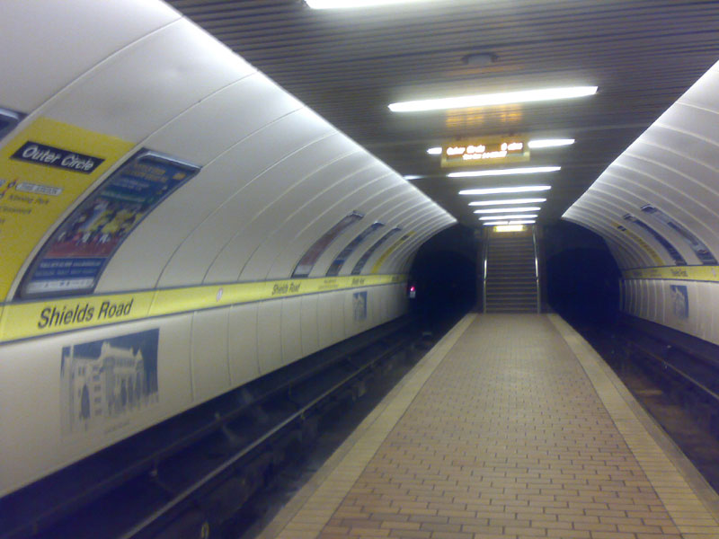 Shields Road subway station